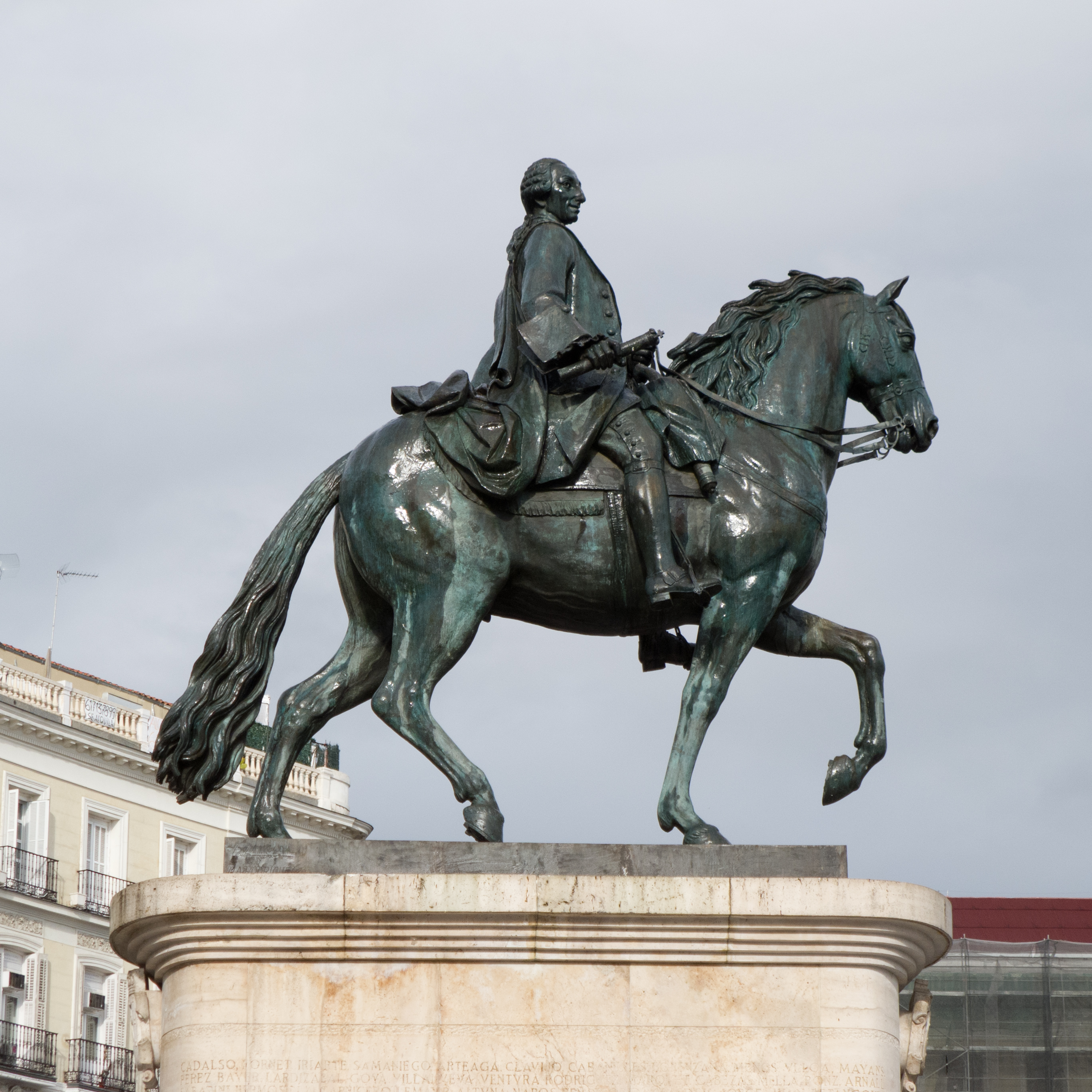 Statue of Charles III of Spain, Madrid, Spain.